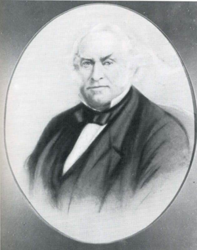 William Bradley, resident of Lindesay, Darling Point.